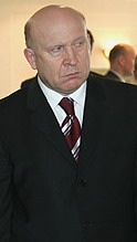 Valery Pavlinovich Shantsev, former Vice Mayor of Moscow, incumbent Governor of Nizhny Novgorod Oblast'.